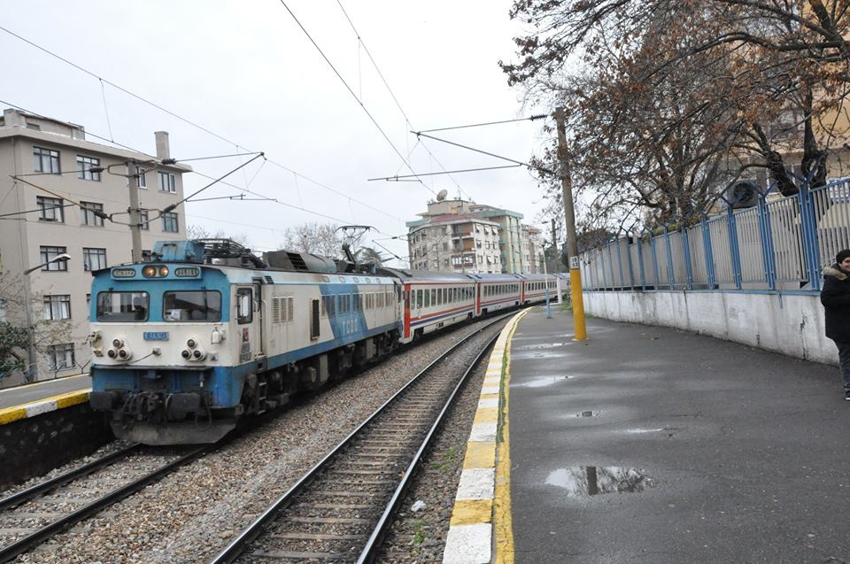 The Bogazici Express at Kartal.